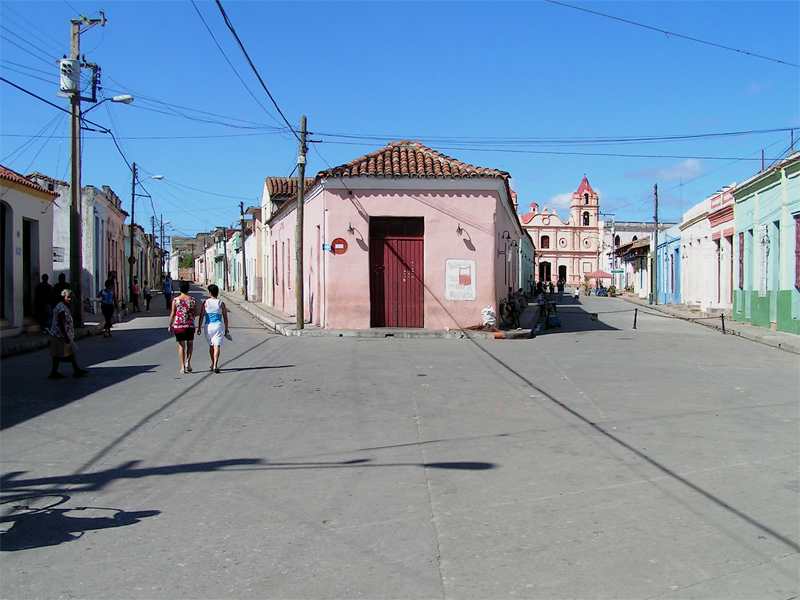 Camagüey, Cuba. The old town includes many streets leading to a dead end. Dating back to the colonial era in the 17th Century, they were constructed that way to trap potential pirates invading from the sea.